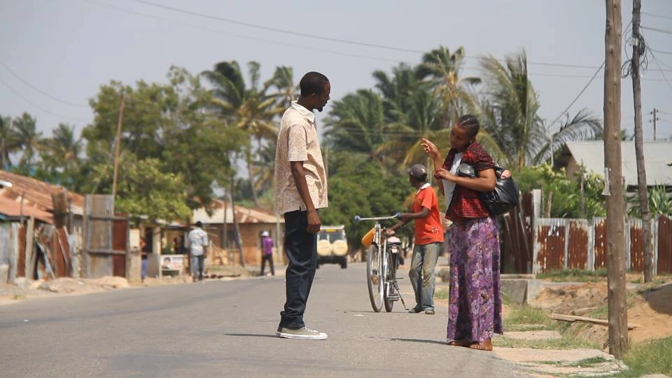 lazaro mawe aka Stone talking to jussica ,during short film making . its abvios to ask for direction when a villager inters a town This is an image from Tanzania